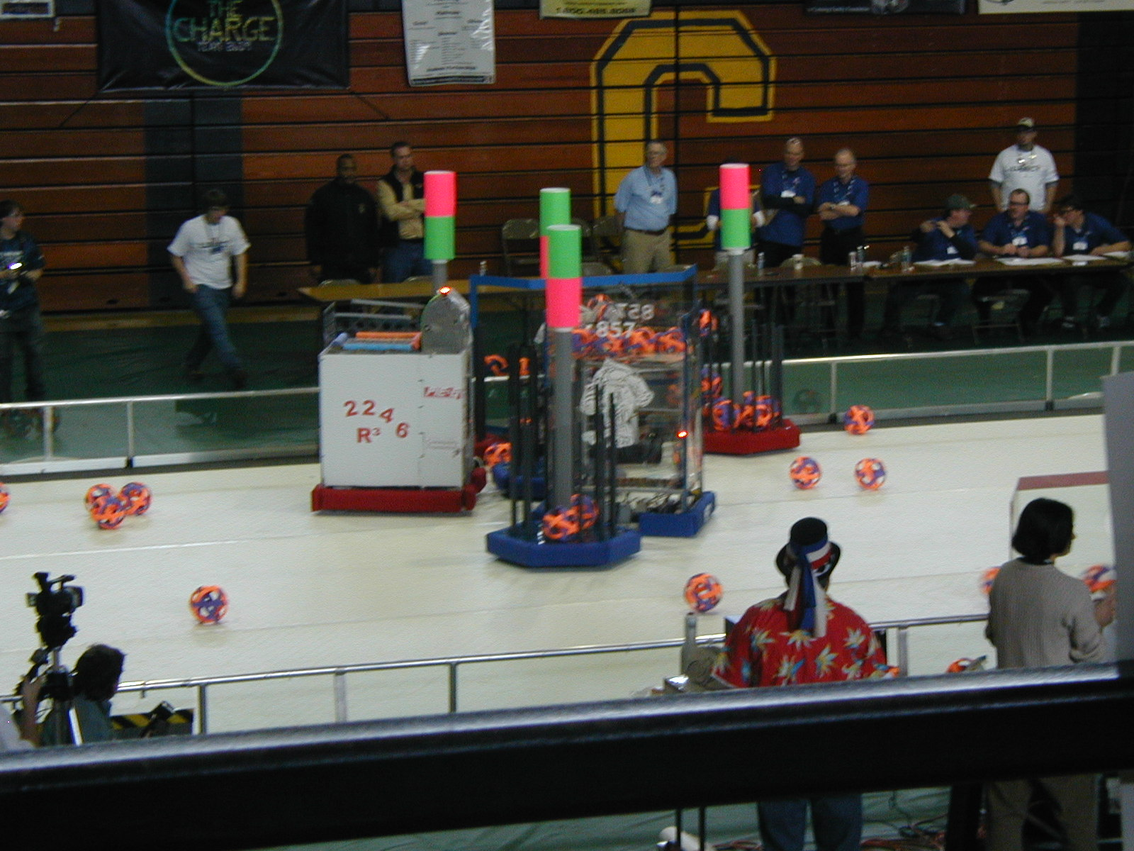 Teams 857 and 2246 are seen playing in the Traverse City district competition.